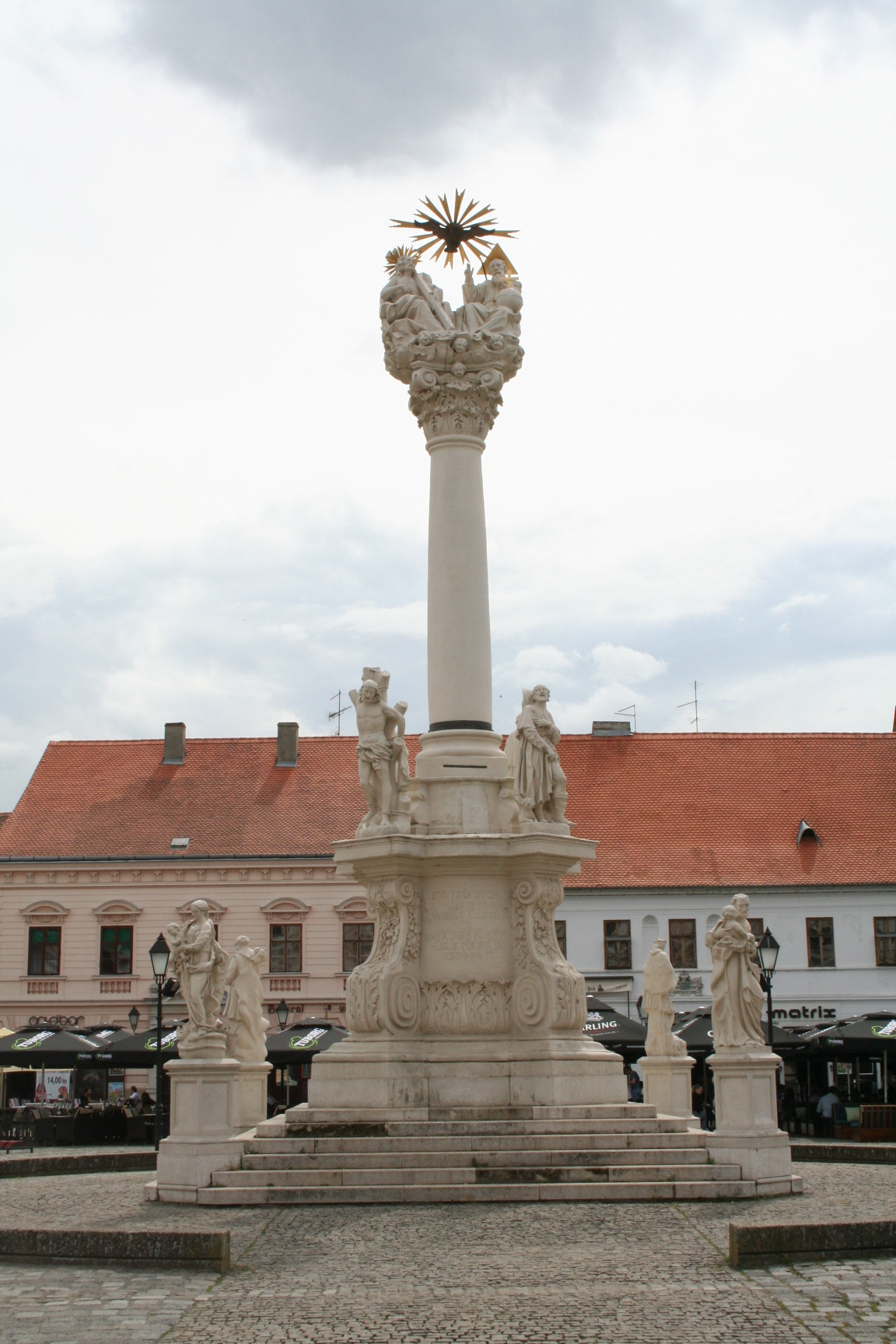 Votive statue of the Holy Trinity in Osijek.